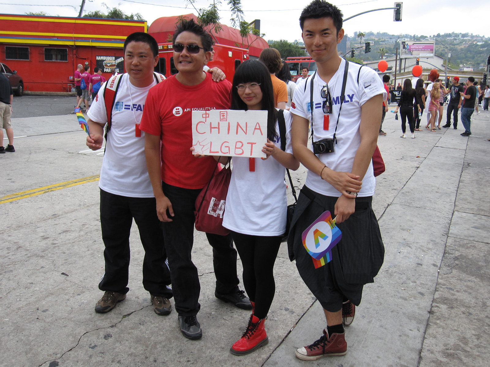 For the 2011 Los Angeles Pride, I marched with a pan-Asian delegation, to show my support for LGBT rights in Asian communities of Southern California. Marching in the parade were these courageous Chinese LGBT activists, in the US as part of an internship program at Los Angeles Gay and Lesbian Center, whose white T-shirts they are wearing. The two gentlemen on either side are from Guangzhou and Shanghai, while the young lady is from Wuhan. (A fourth intern, not seen in this photo, is a Beijing-based lesbian.) While China is not virulently homophobic, the Chinese government does not like anything that can be "disruptive," and has very heavy-handed censorship policies, and China's Confucian tradition is not women or LGBT-friendly, so being LGBT in China is not exactly a walk in the park. The gentleman in the red API Equality shirt, though having Chinese ethnic background, is not from China. He is Marshall Wong, co-founder of API Equality; his ancestors had left Guangdong Province and arrived in America in the 1870s. He, I, and other volunteers would spend four hours in the afternoon at API Equality's table at the festival nearby.